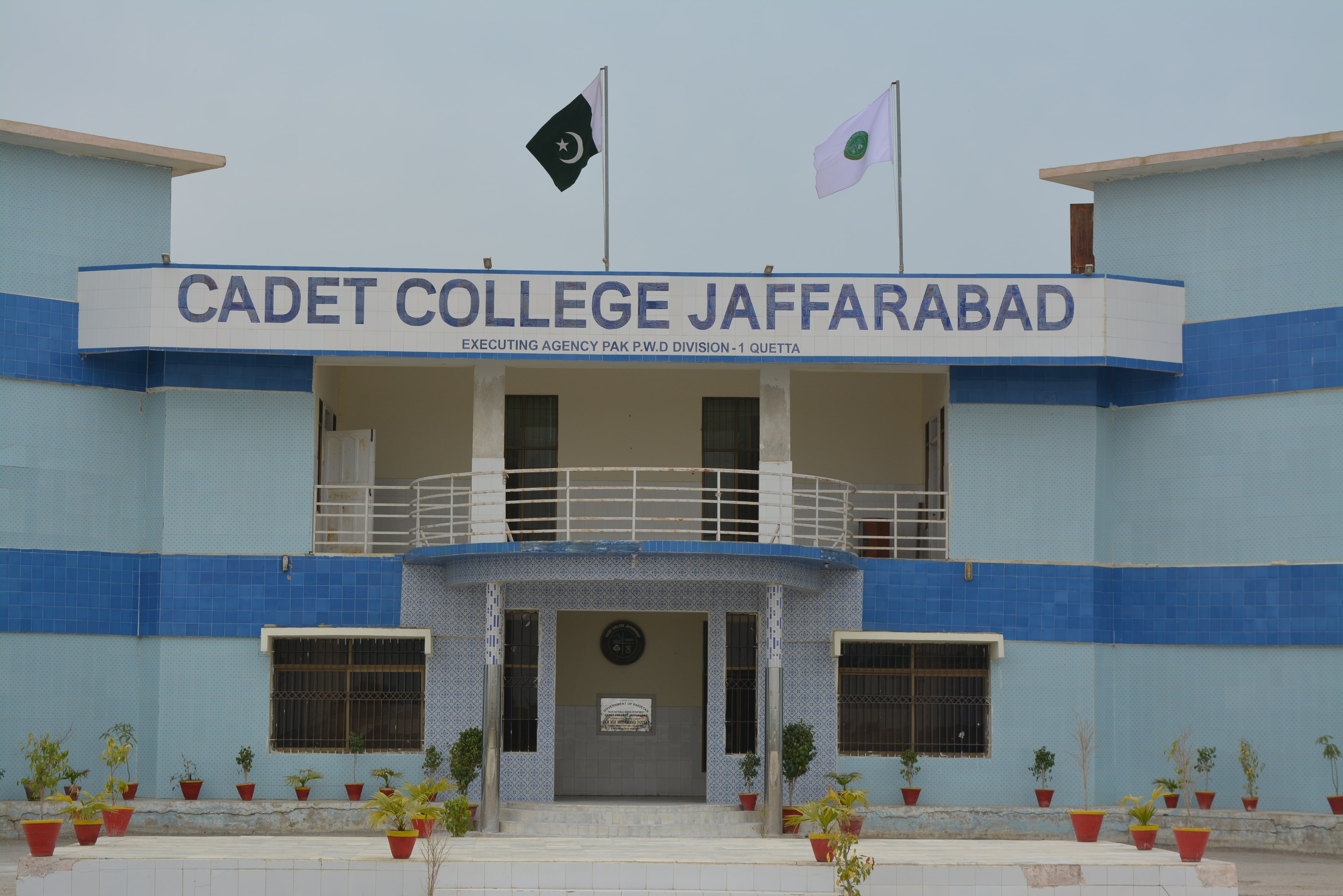 Campus Building of Cadet College Jaffarabad (CCJ)